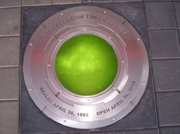 The new Nickelodeon Time Capsule after the closure of the Nickelodeon Studios in the Nickelodeon Suites Resort in Orlando, Florida.